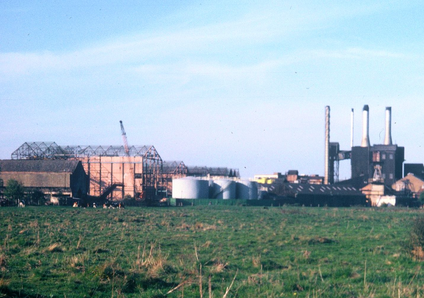 Croxley Paper Mills from Common Moor